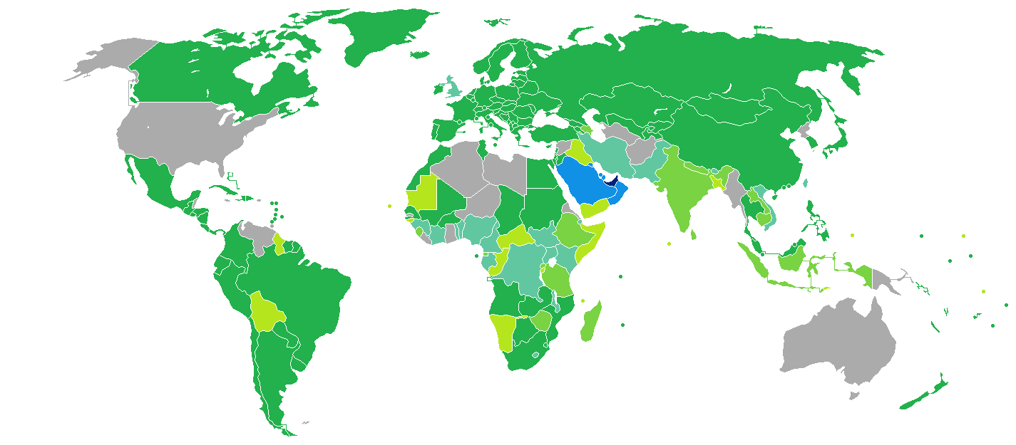 Visa requirements for Emirati citizens UAE Freedom of movement Visa free access Visa on arrival eVisa Visa available both on arrival or online Visa required